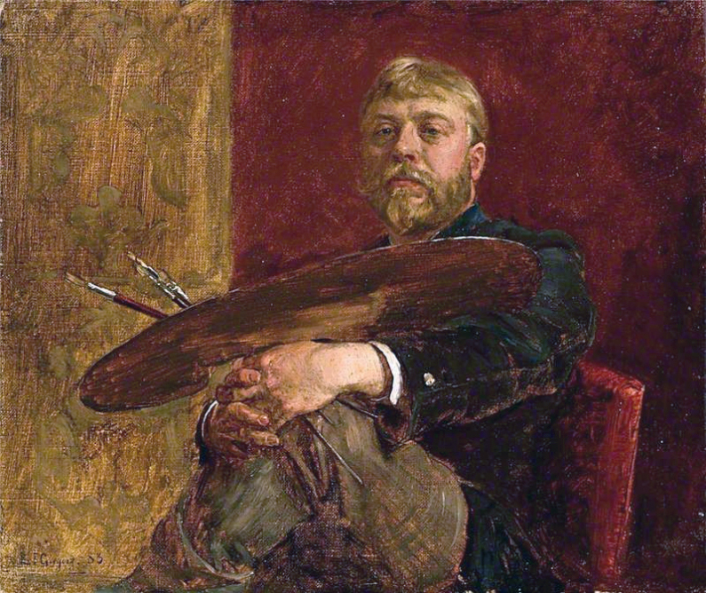 Self portrait oil on canvas 29.4 x 34.7 cm signed b.l.: E J Gregory. 83